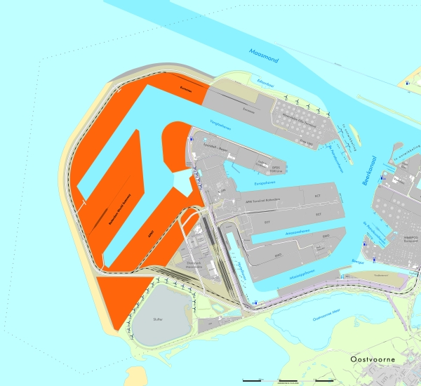 Map showing the Maasvlakte 2 project of Mainport Rotterdam.